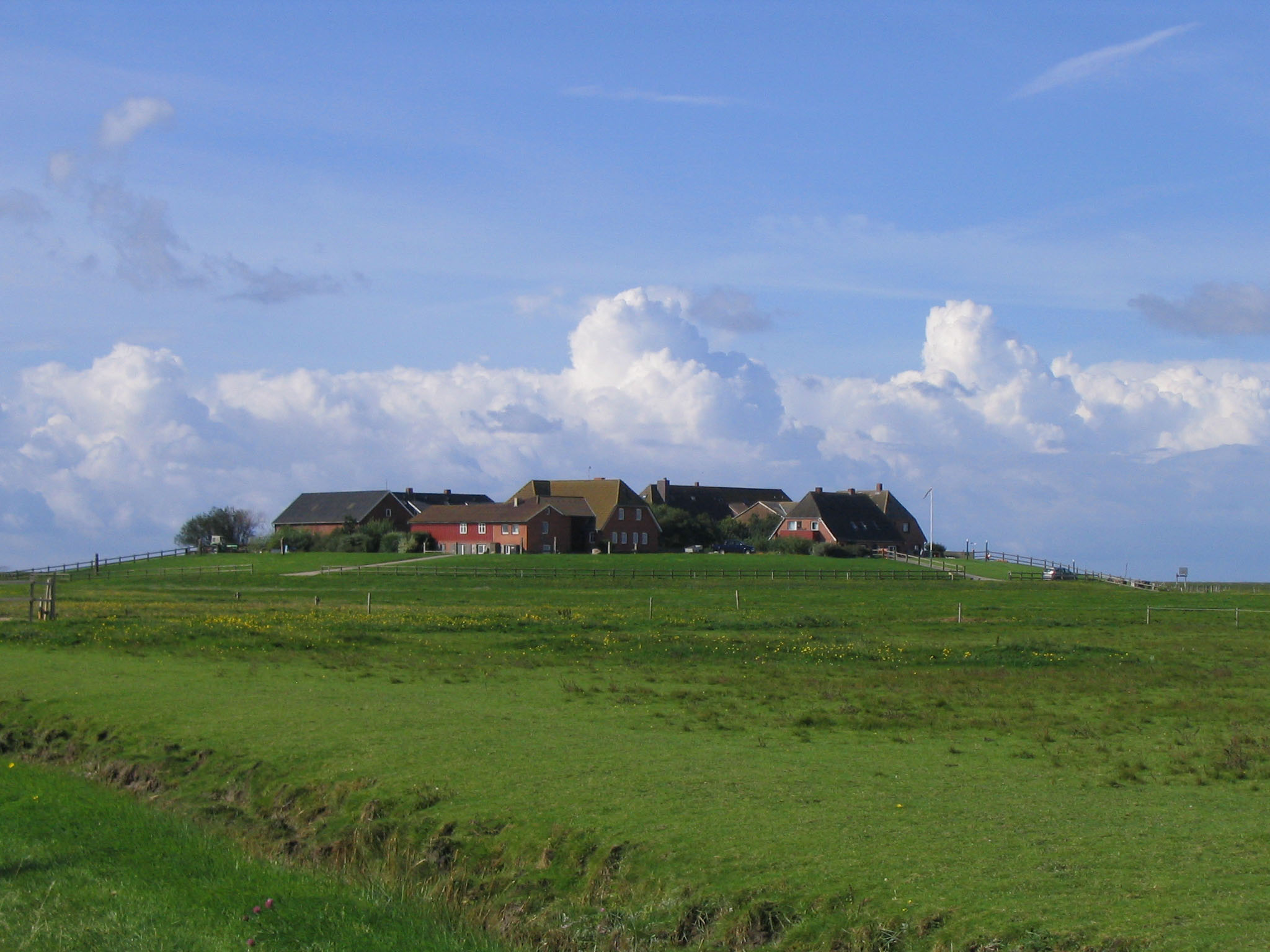 Picture of Hallig Hooge, Germany.